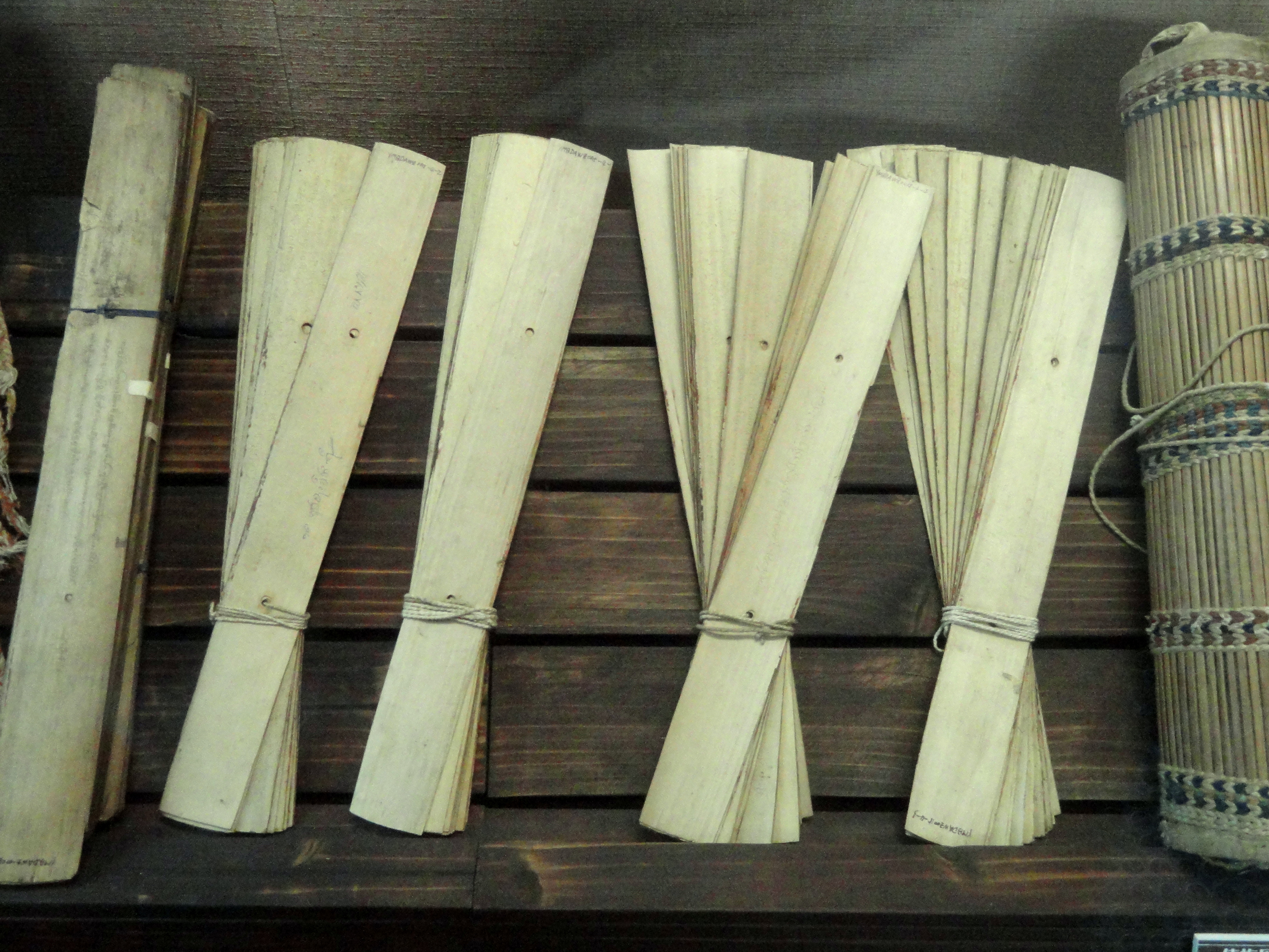 Dai scripture on palm-leaf. Manuscripts / writing systems in the Yunnan Nationalities Museum, Kunming, Yunnan, China.